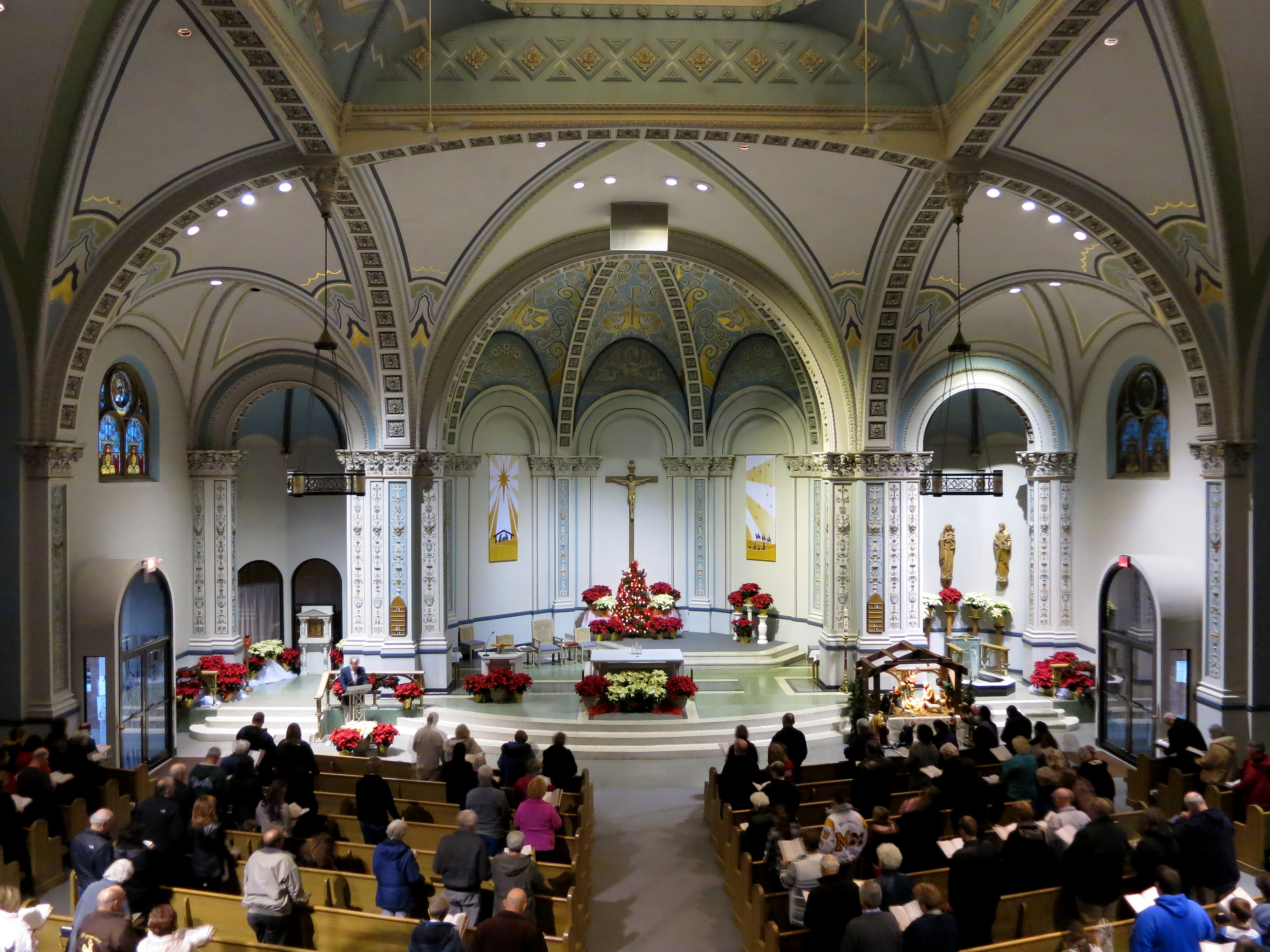 Saint Nicholas Catholic Church (Zanesville, Ohio) - nave, view from the loft at the beginning of Mass